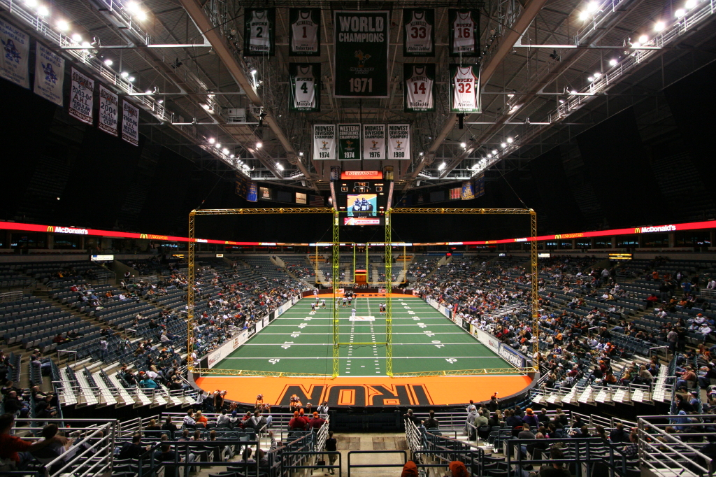 A wide angle view of the Bradley Center set up for a Milwaukee Iron game.